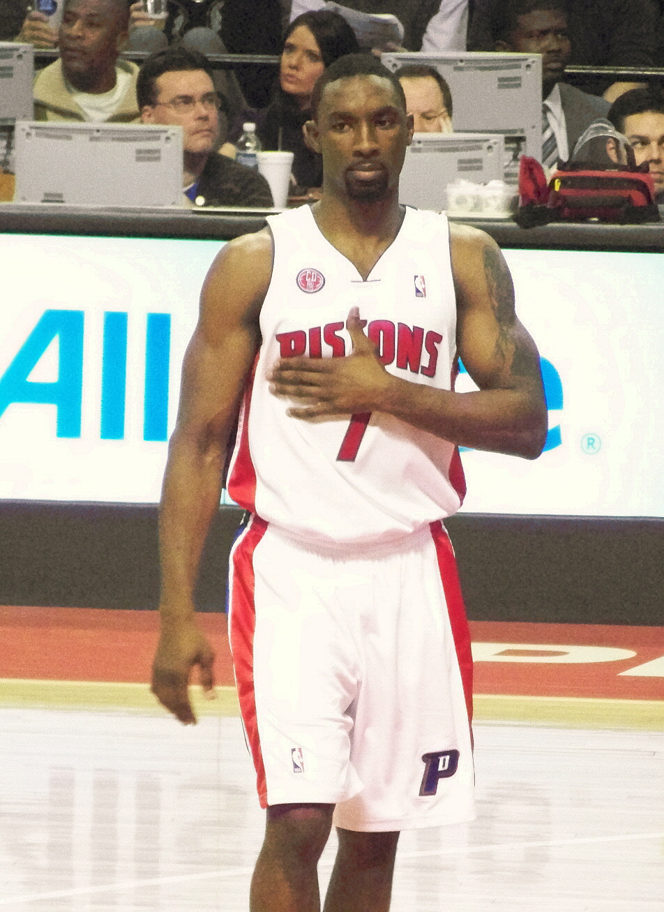 Ben Gordon of the Detroit Pistons during a game against the Milwaukee Bucks